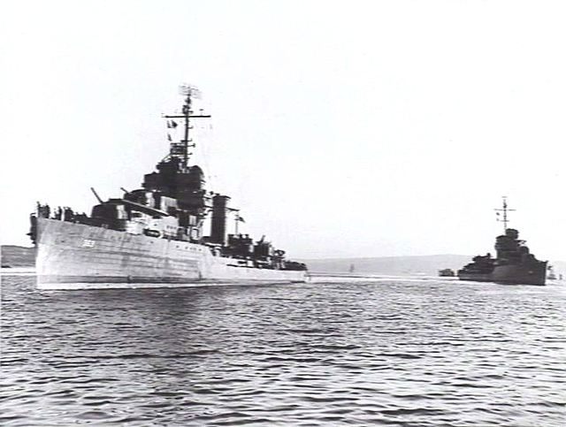 The U.S. Navy destroyer USS Reid (DD-369) accompanied by USS Mugford (DD-389) and two other American destroyers steaming slowly up the harbour at Sydney, Australia. The Mugford has SC-1 air search radar at the masthead whereas the Reid has the later SC-2. Also visible on the Reid are SG surface search and Mark 4 fire control radar antennas. Note the bulges to accommodate fuse setting machines on the sides of the Reid´s forward 5 inch/38 gun mountings. Her portside twin 40 mm Bofors AA mounting is visible aft.